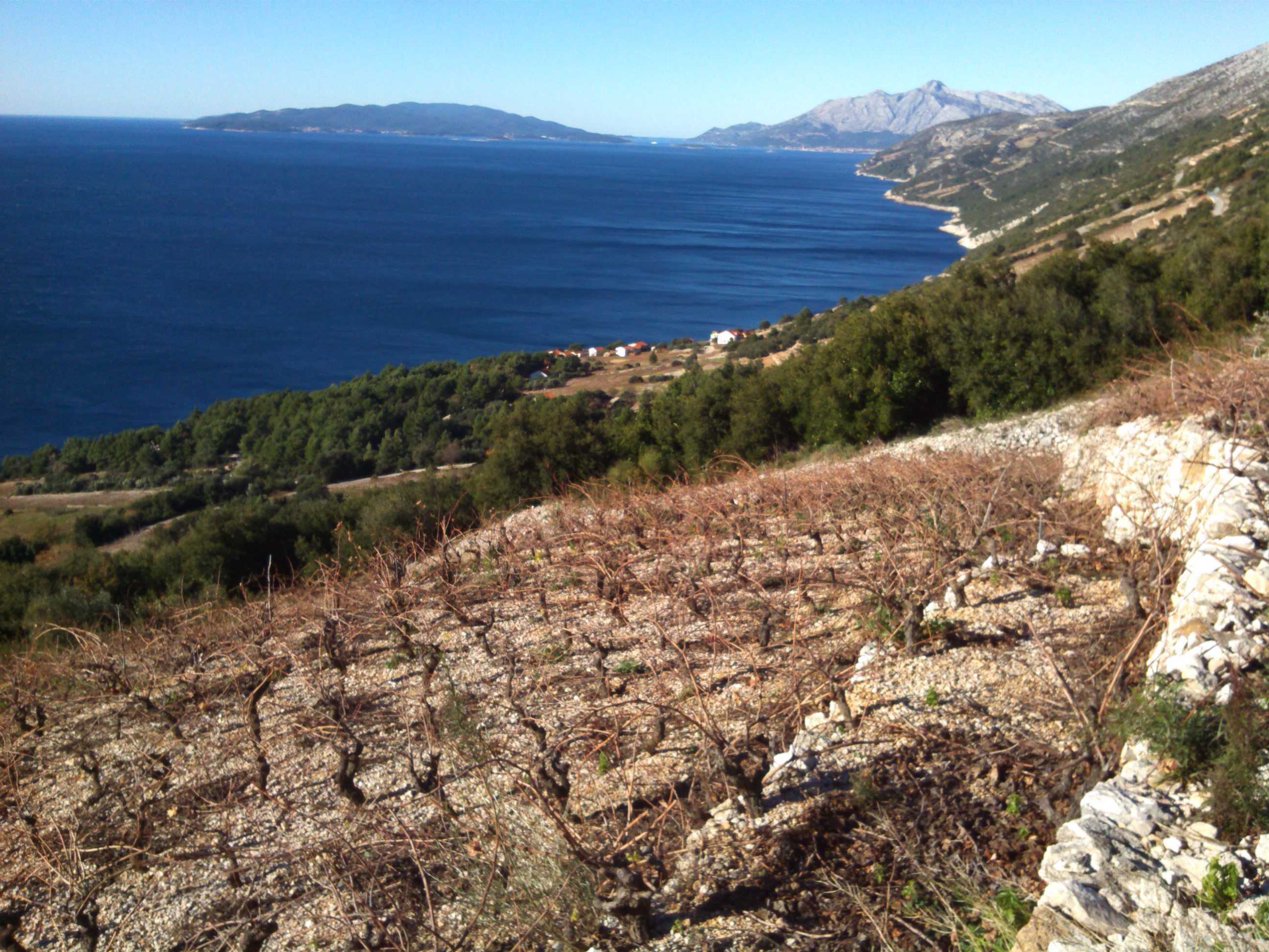 Vineyards in Dingač